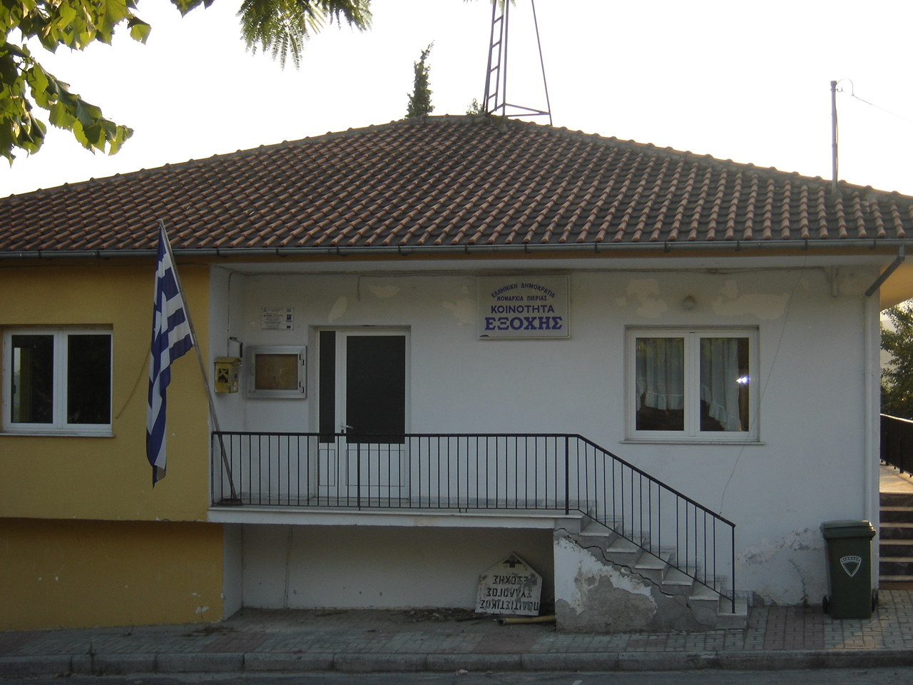 The community center ("kinotita") of Exohi.